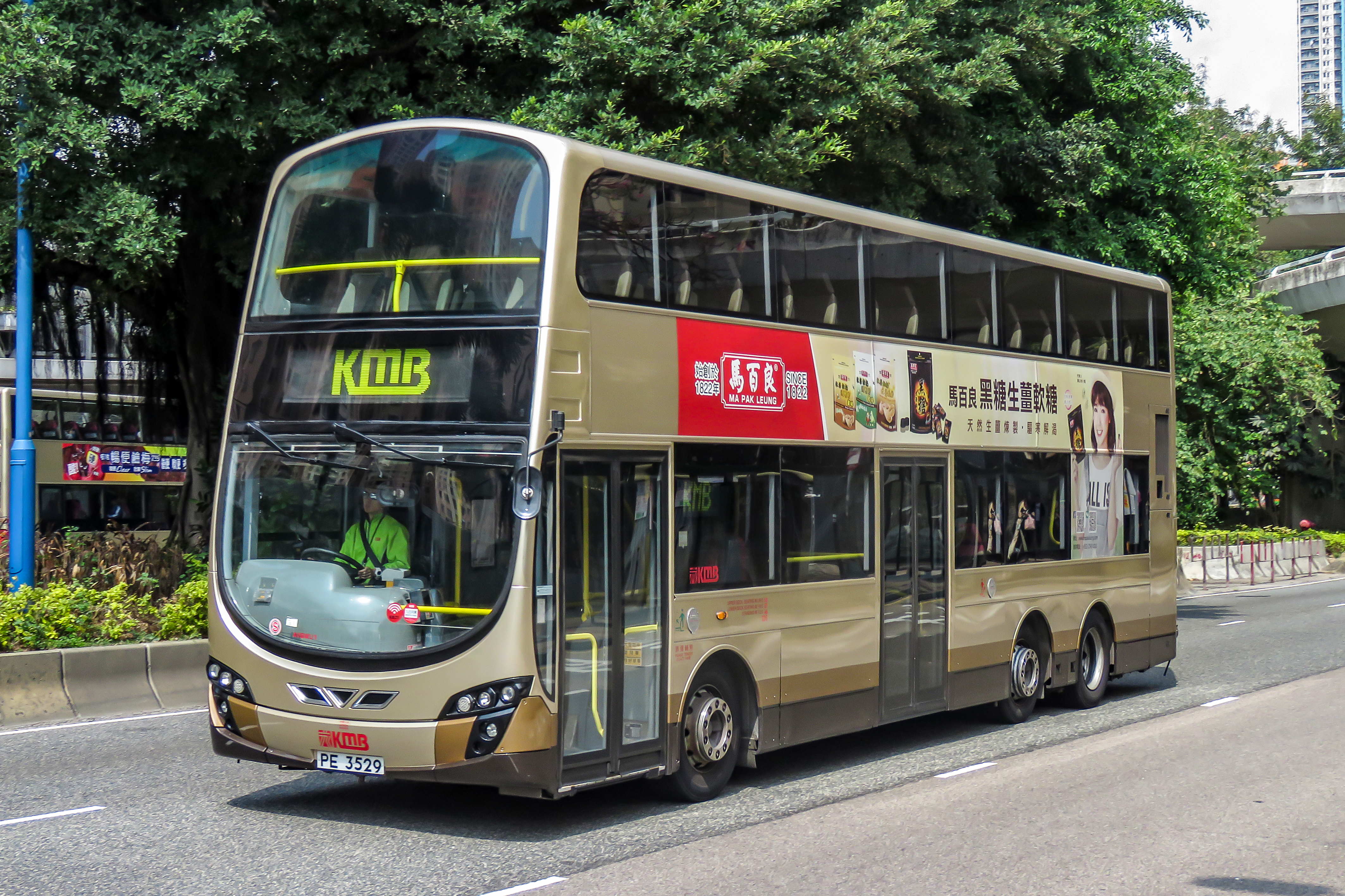 This fellow has its cabin renovated to new standard, but the body isn't painted red.